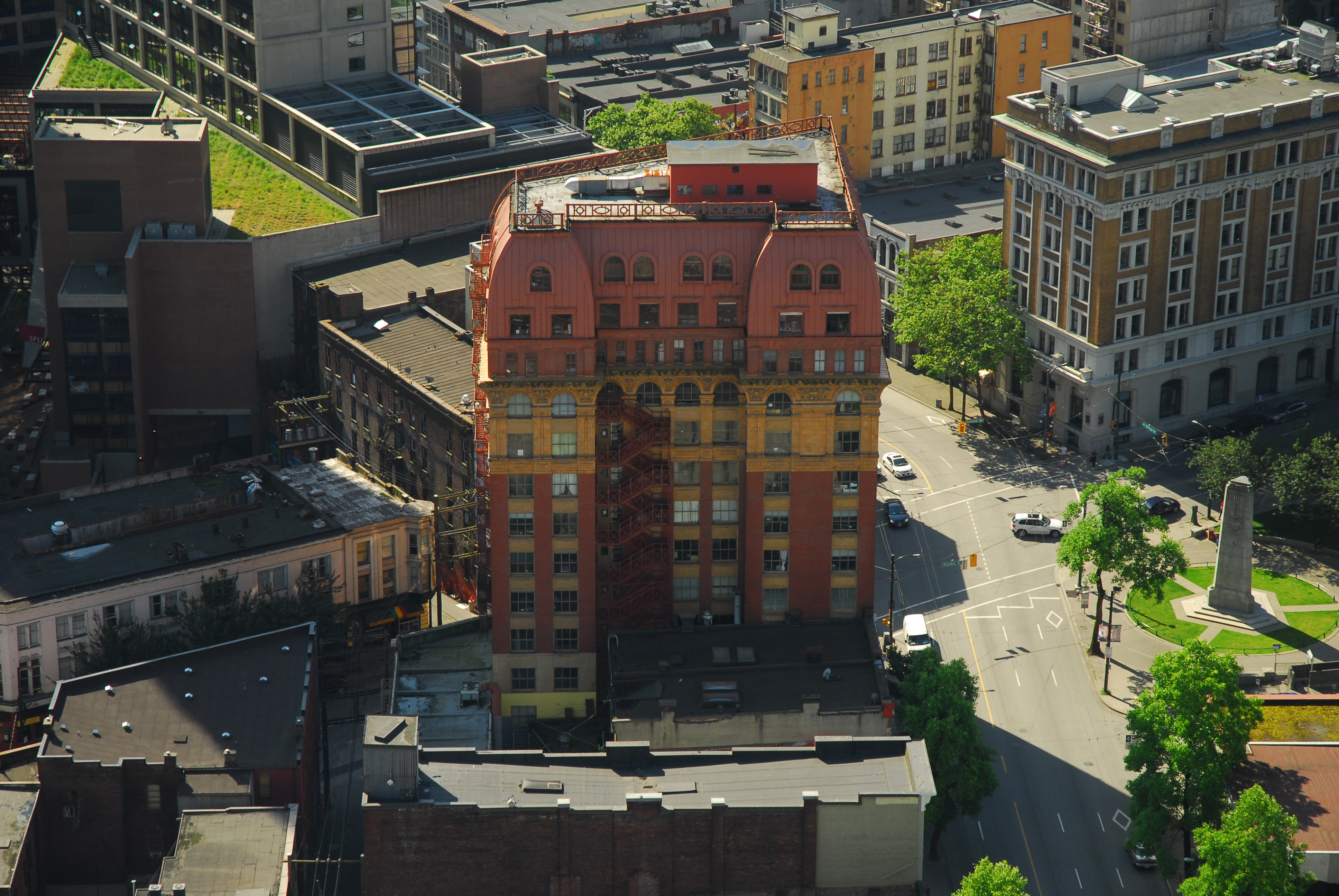 Dominion Building Vancouver as seen from the Vancouver Lookout Tower